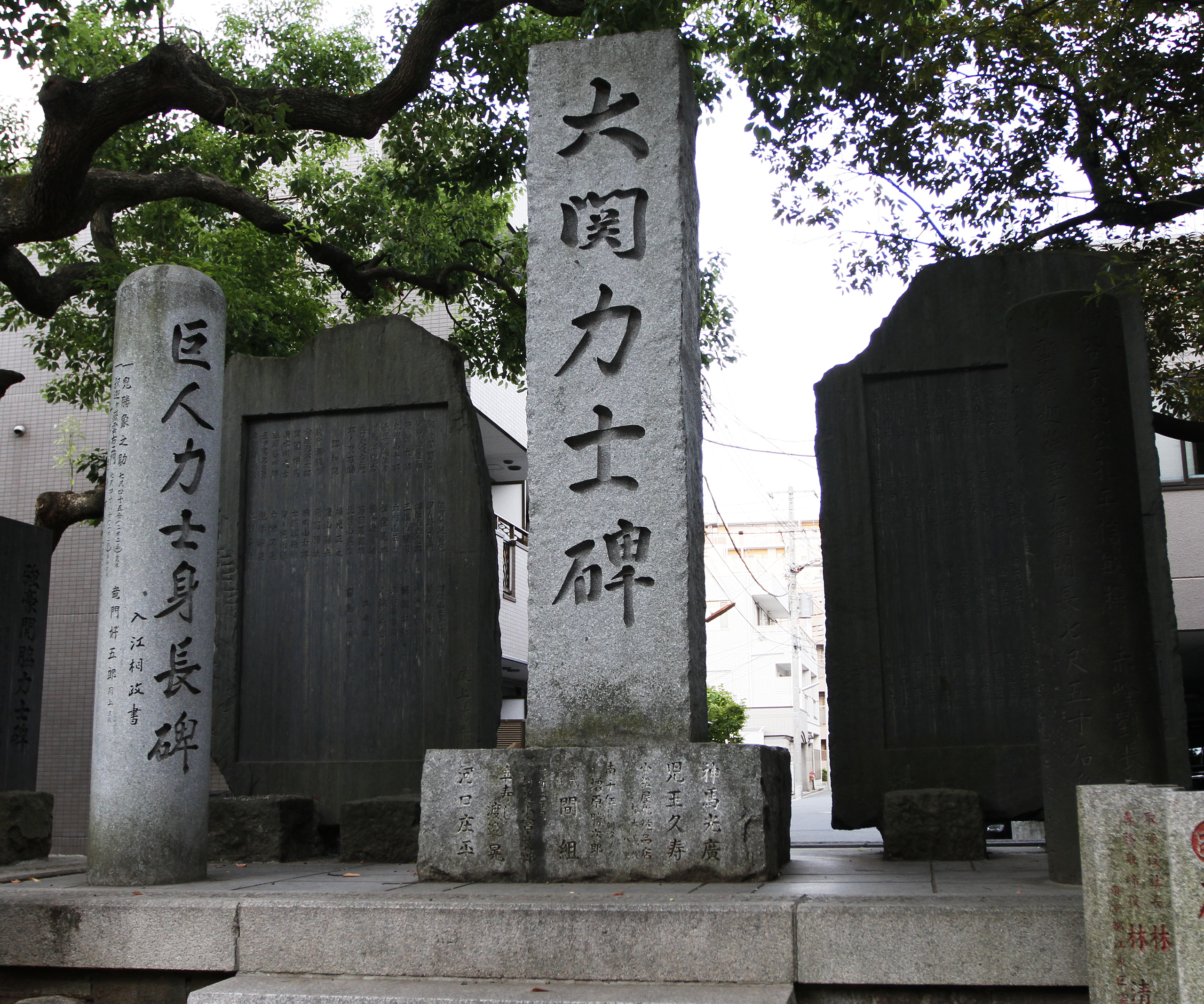 Stone Monuments of Ozeki (Sumo wrestler) at the Tomioka Hachiman Shrine in Koto-ku, Tokyo